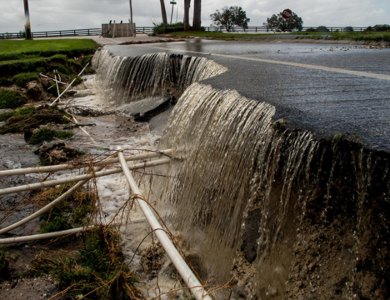 A washed out road in Sebring, Florida, following Hurricane Irma